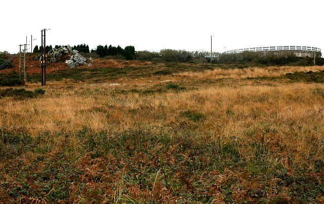 St Mewan Beacon. The circular tank on the right is a settling tank associated with the Blackpool China Clay Works just over the horizon.